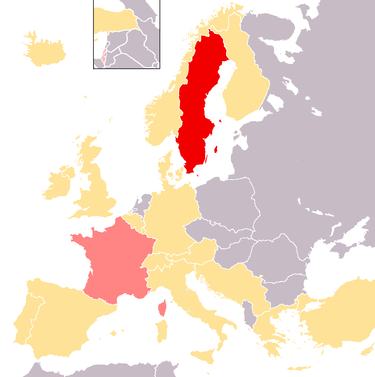 Map of Eurovision 1991